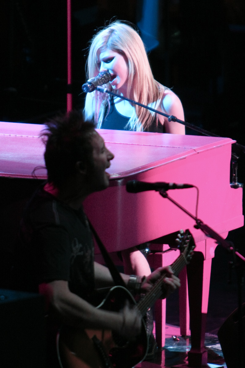 Avril Lavigne on the Piano